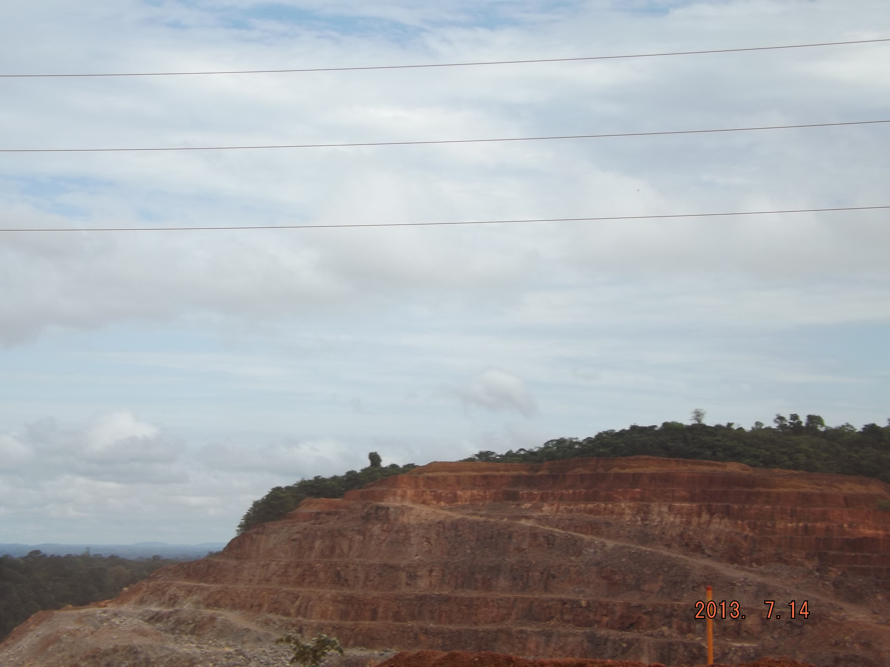 The Big Mine in 2013 / Amazon Rainforest - Brazil produção de terras raras in Brazil.